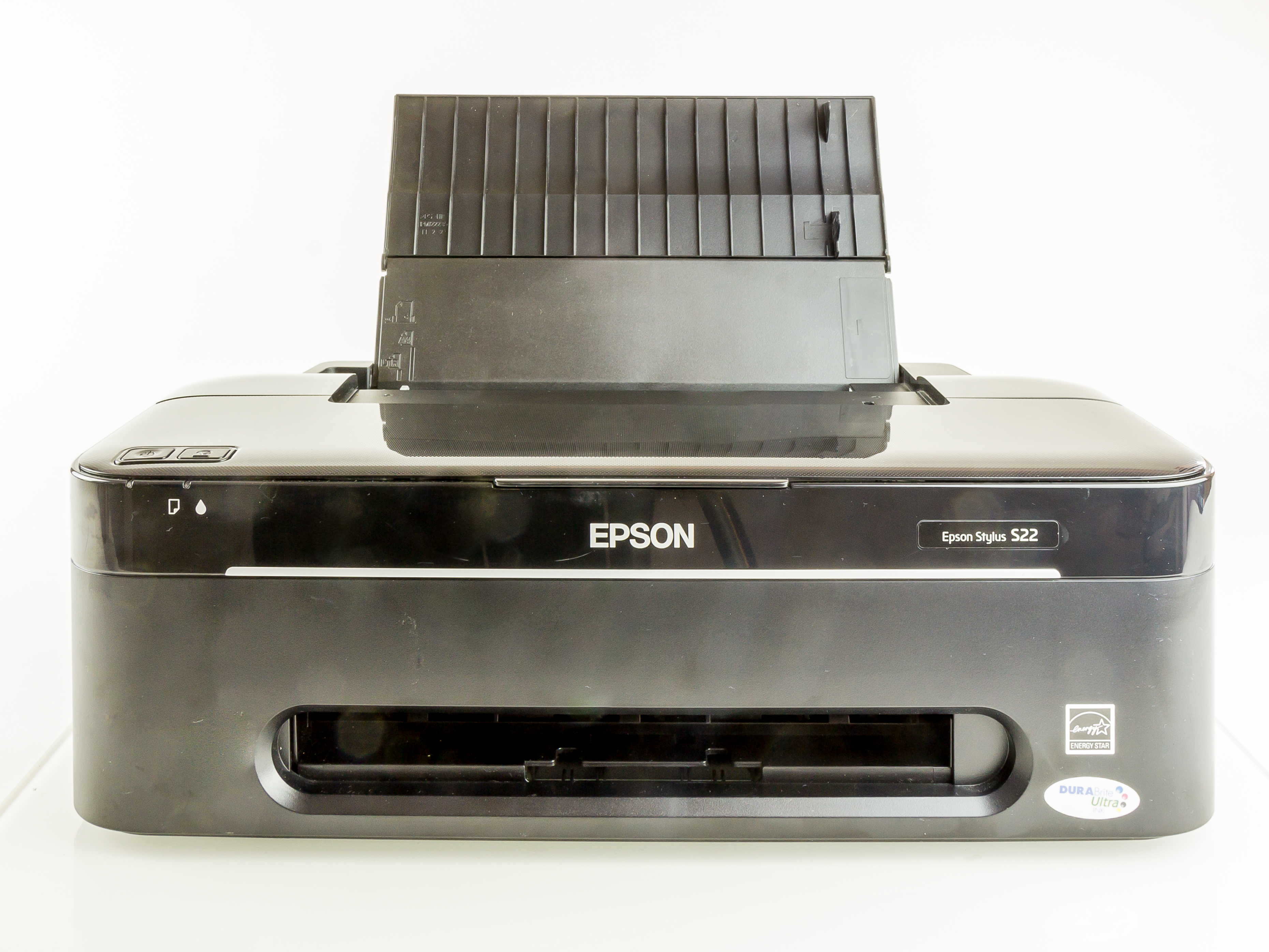 Inkjet printer Epson Stylus S22